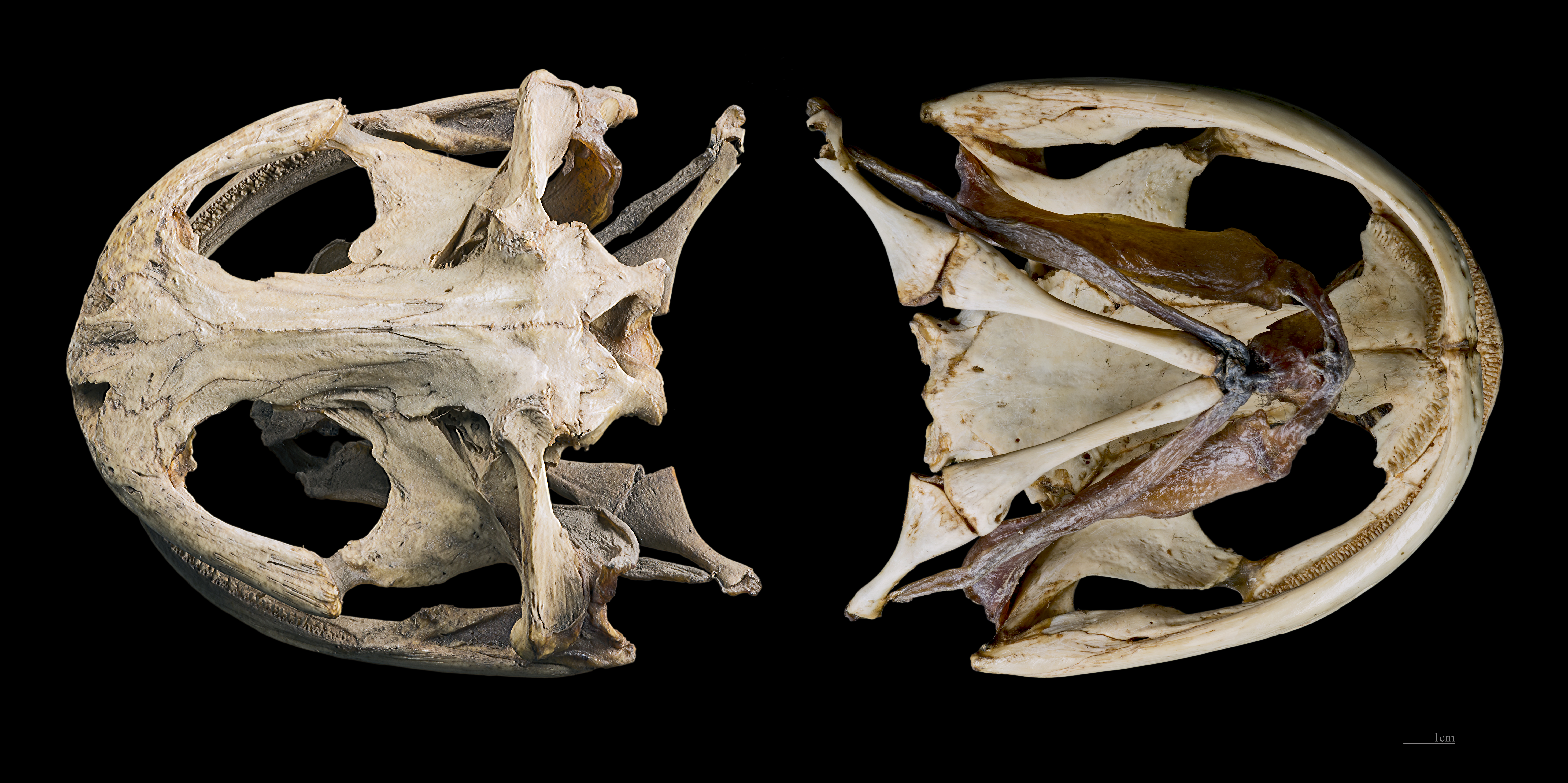 Japanese giant salamander, Two views of the skull. Locality : Japan.